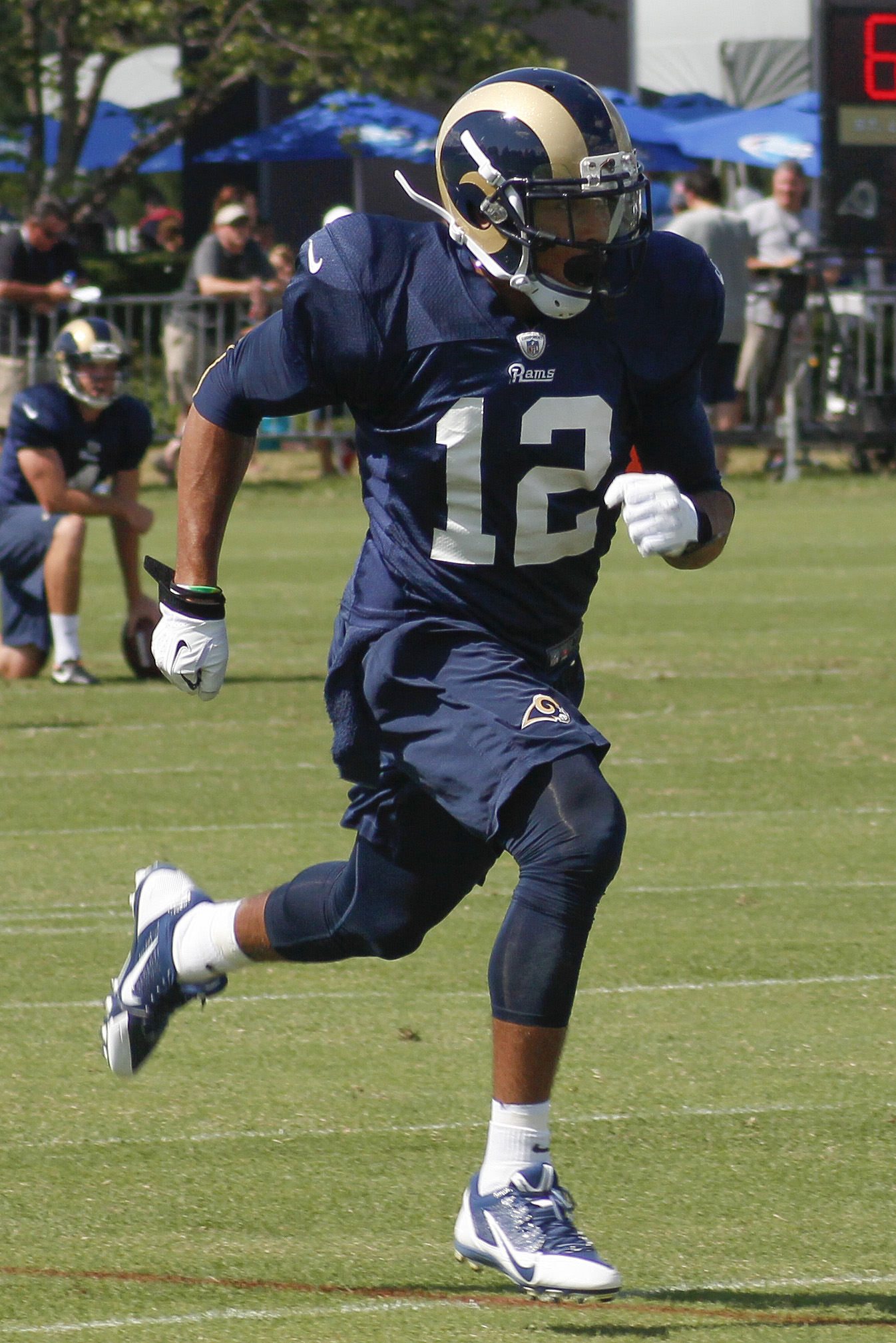 Rams player Steadman Bailey